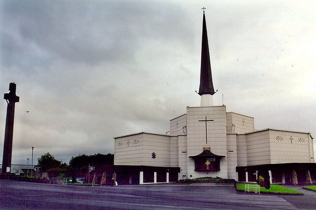 Knock - Southeast view of Basilica